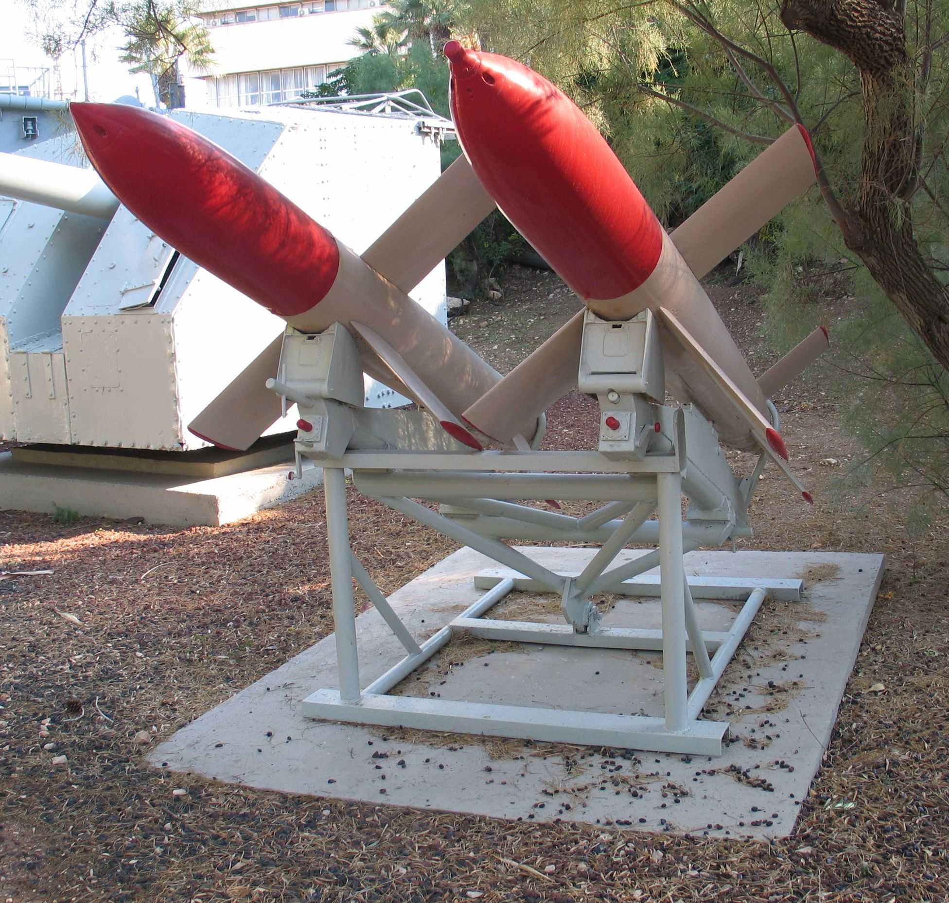 Looz missile (prototype of the Gabriel) in the Clandestine Immigration and Naval Museum, Haifa, Israel.